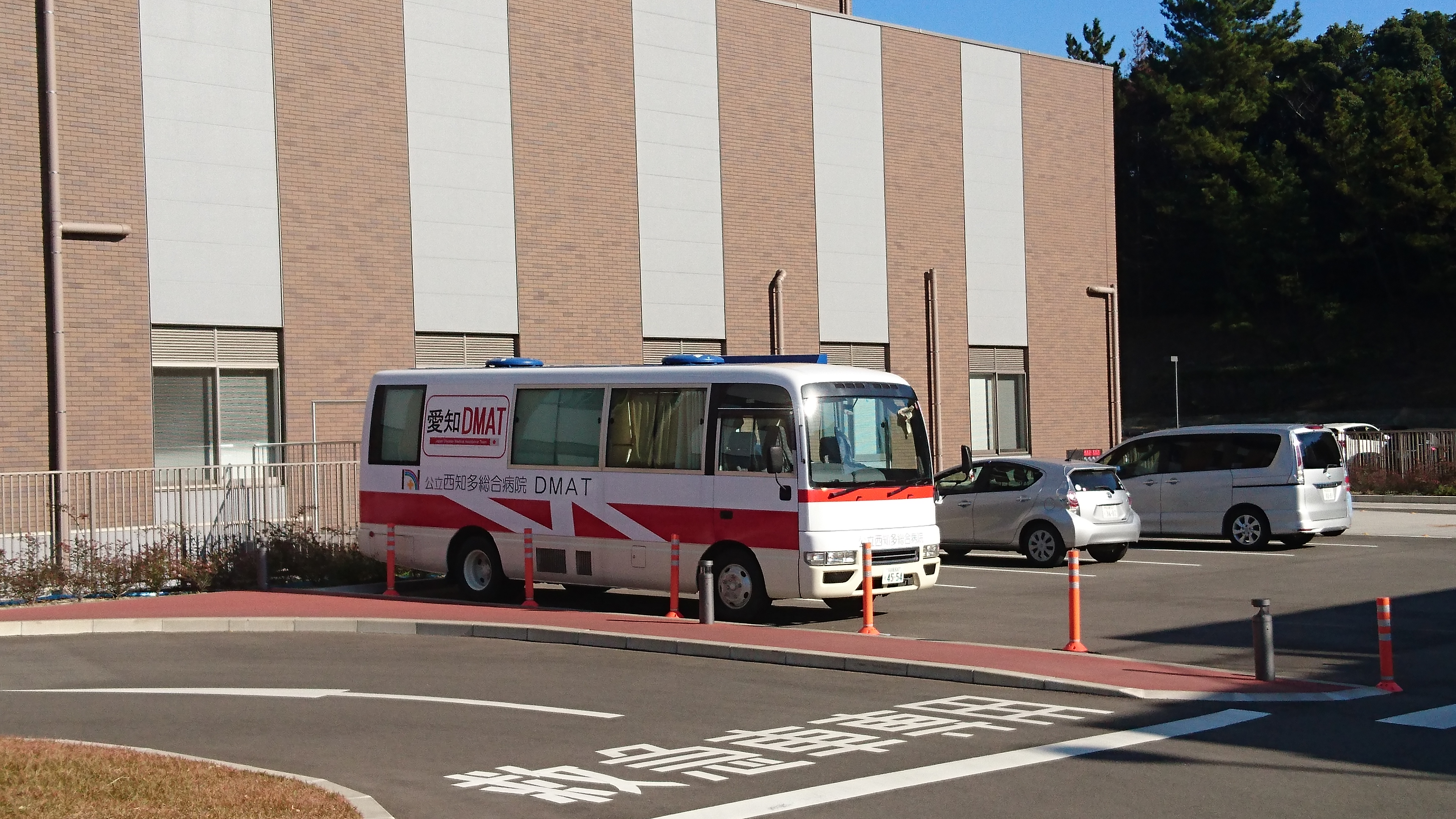 Nishi Chita General Hospital